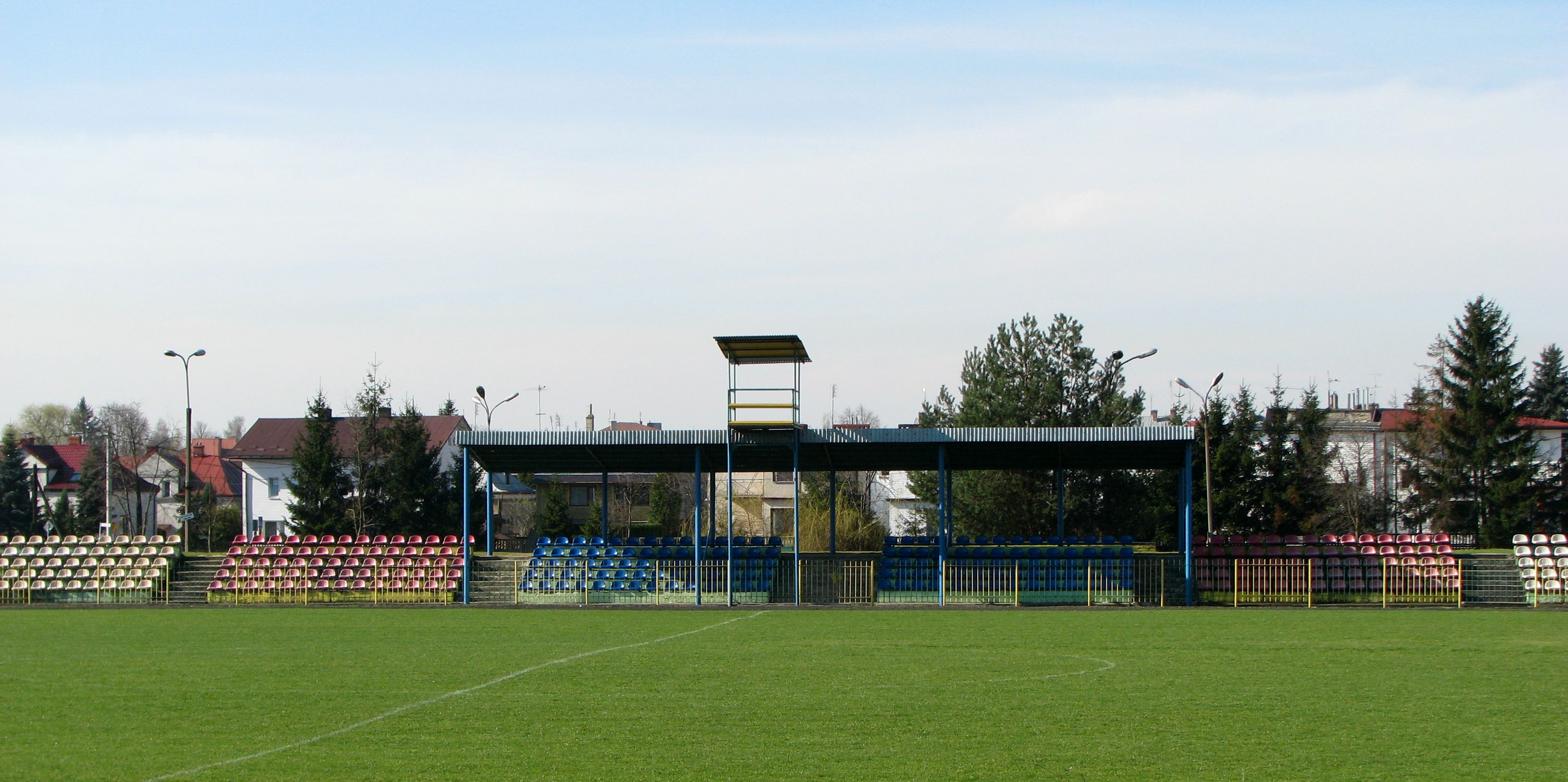 Football stadium in Staszów, Poland.